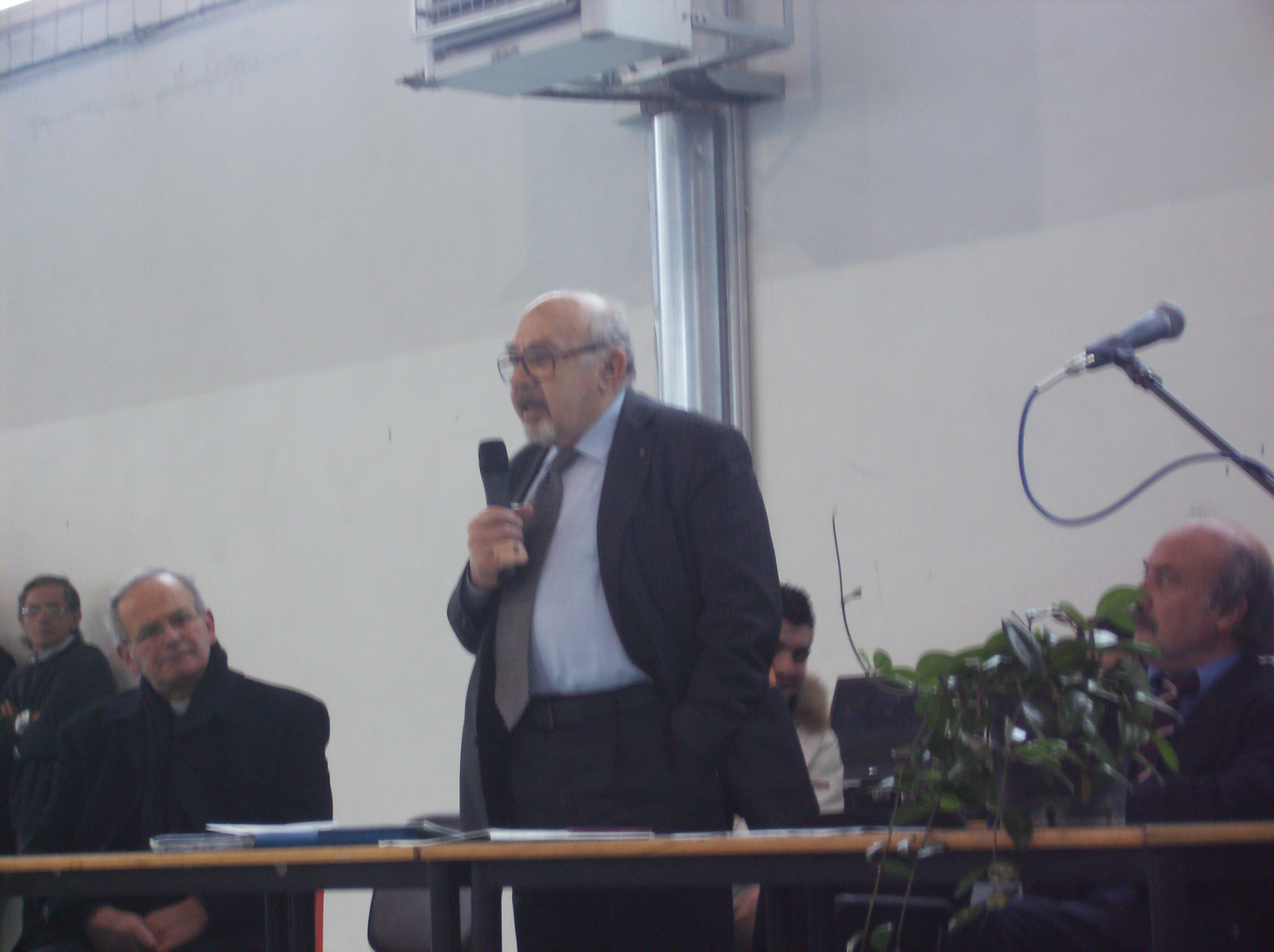 Piero Terracina during a meeting on Shoah in Teggiano (SA) - Italy